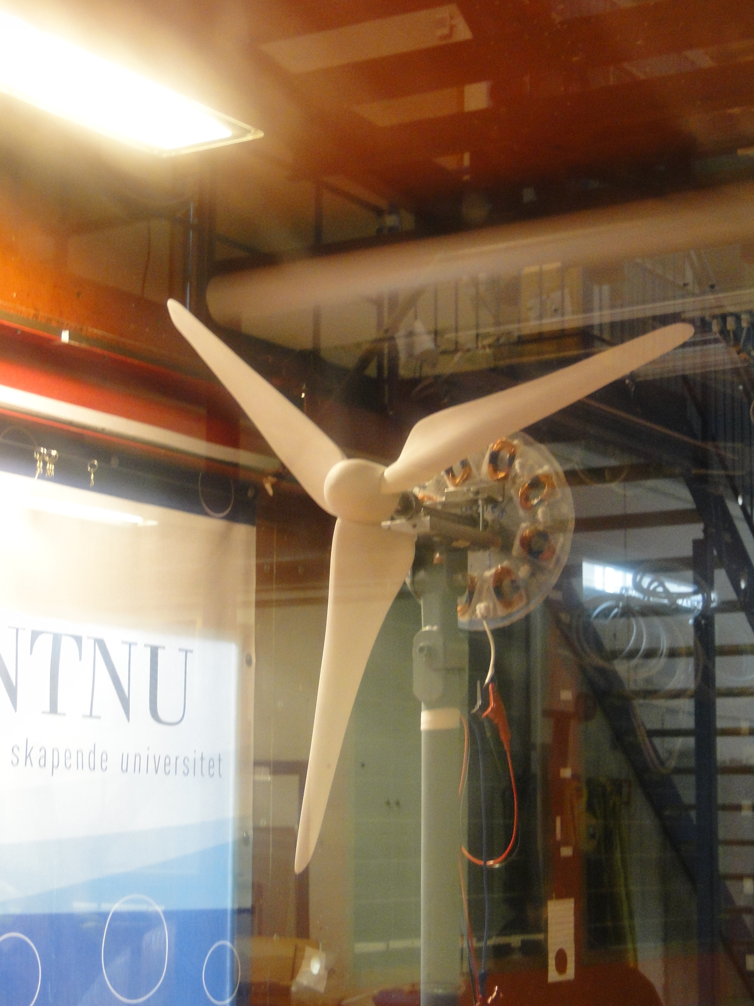 Wind turbine from student project at Norwegian University of Science and Technology (NTNU)